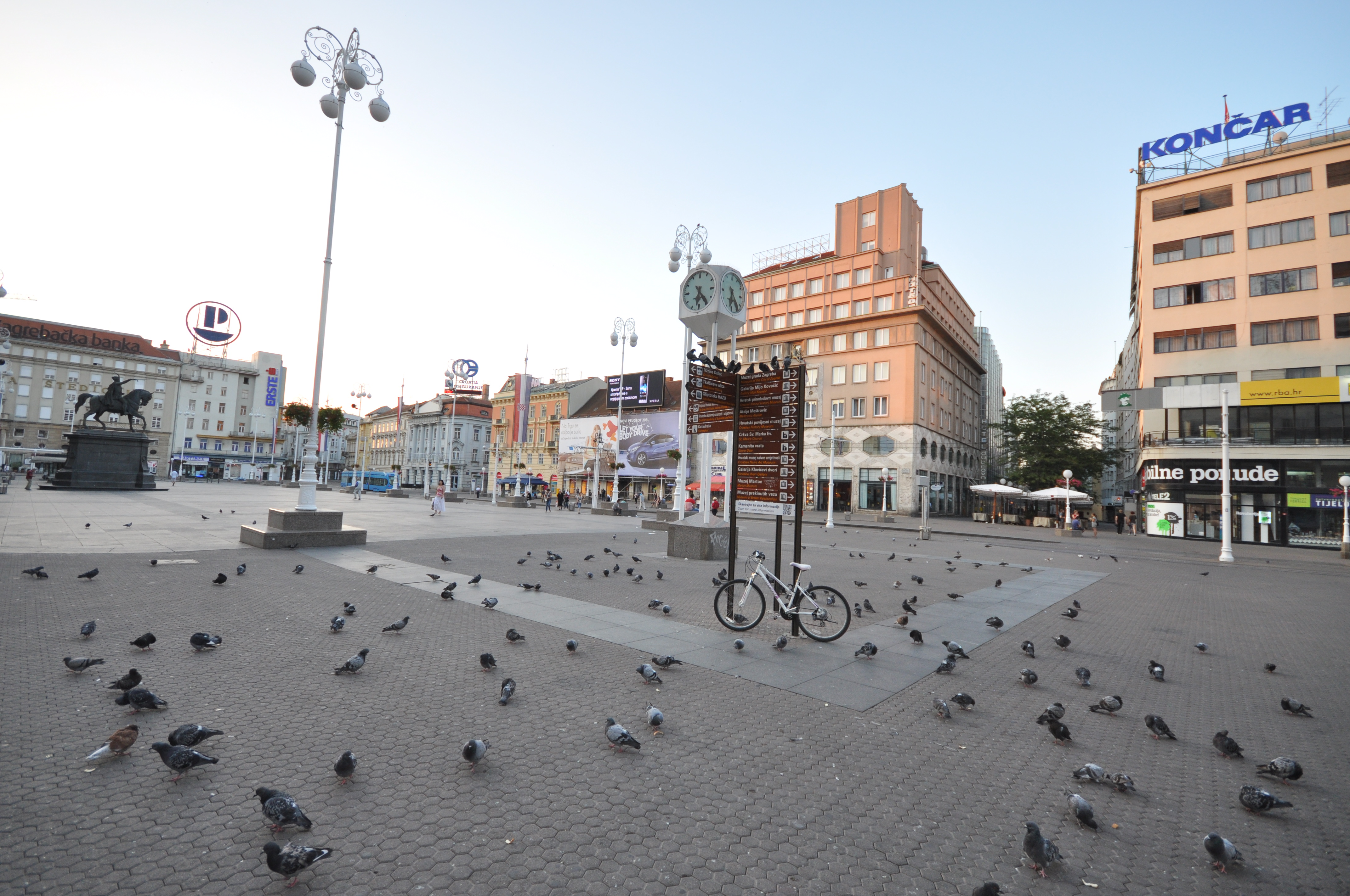 Ban Jelačić Square is the central square of the city of Zagreb, Croatia, named after ban Josip Jelačić. The official name is Trg bana Jelačića. It is colloquially referred to as Jelačić plac (derived from Platz, the German word for square or plaza) or simply Trg ("the square"). It is located below Zagreb's old city cores Gradec and Kaptol and directly south of the Dolac Market on the intersection of Ilica from the west, Radićeva Street from the northwest, the small streets Splavnica and Harmica from the north, Bakačeva Street from the northeast, Jurišićeva Street from the east, Praška Street from the southeast and Gajeva Street from the southwest. It is the center of the Zagreb Downtown pedestrian zone